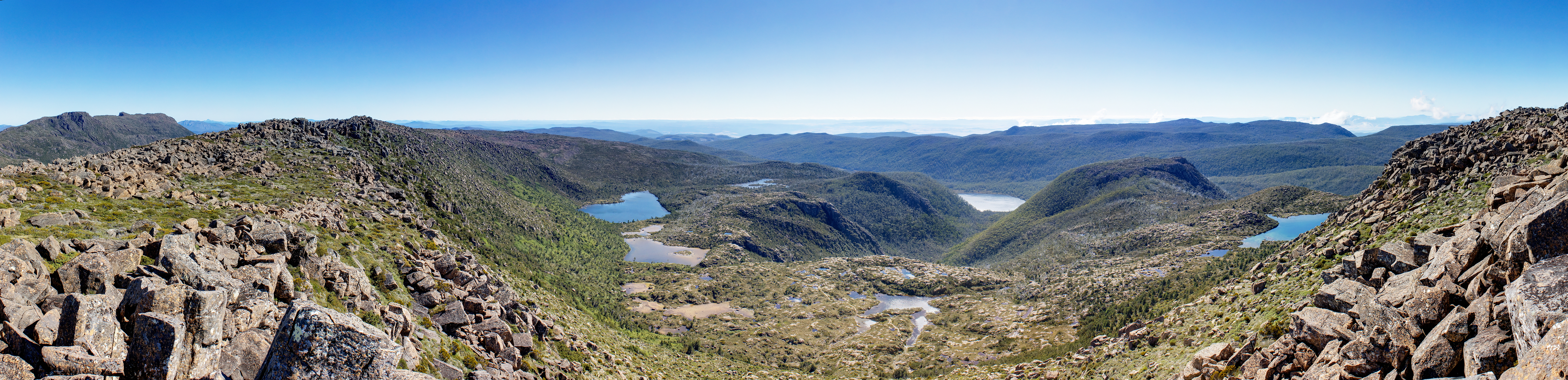 Tarn Shelf from Rodway Range, Mt Field National Park